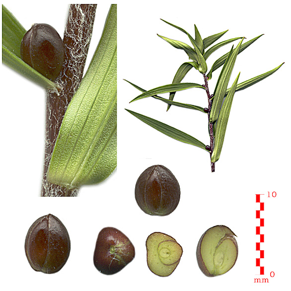 Bulbils in Lilium